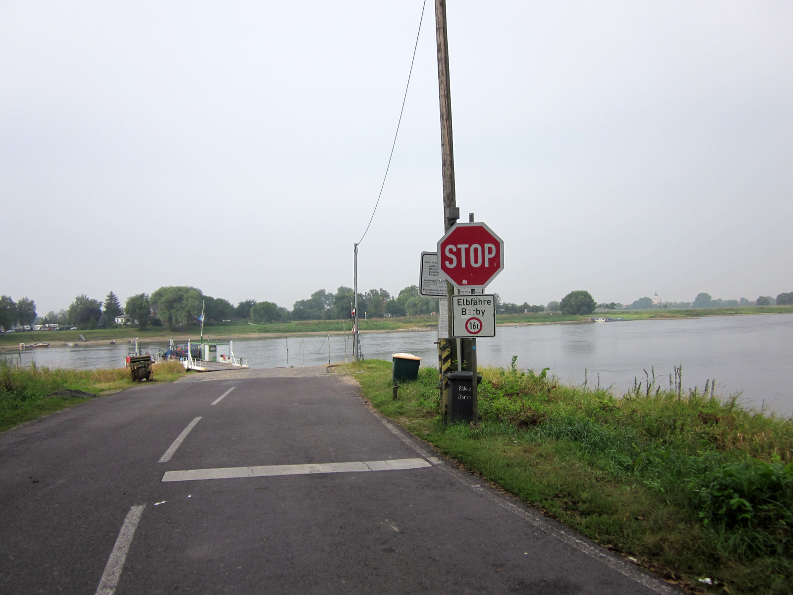 Reaction ferry over the Elbe in Barby, Sachsen-Anhalt, Germany